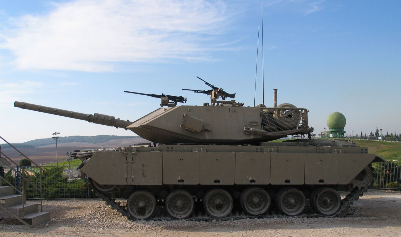 Description: Magach 7 tank in Yad la-Shiryon Museum, Israel. 2005. Source: Photo by me, User:Bukvoed.